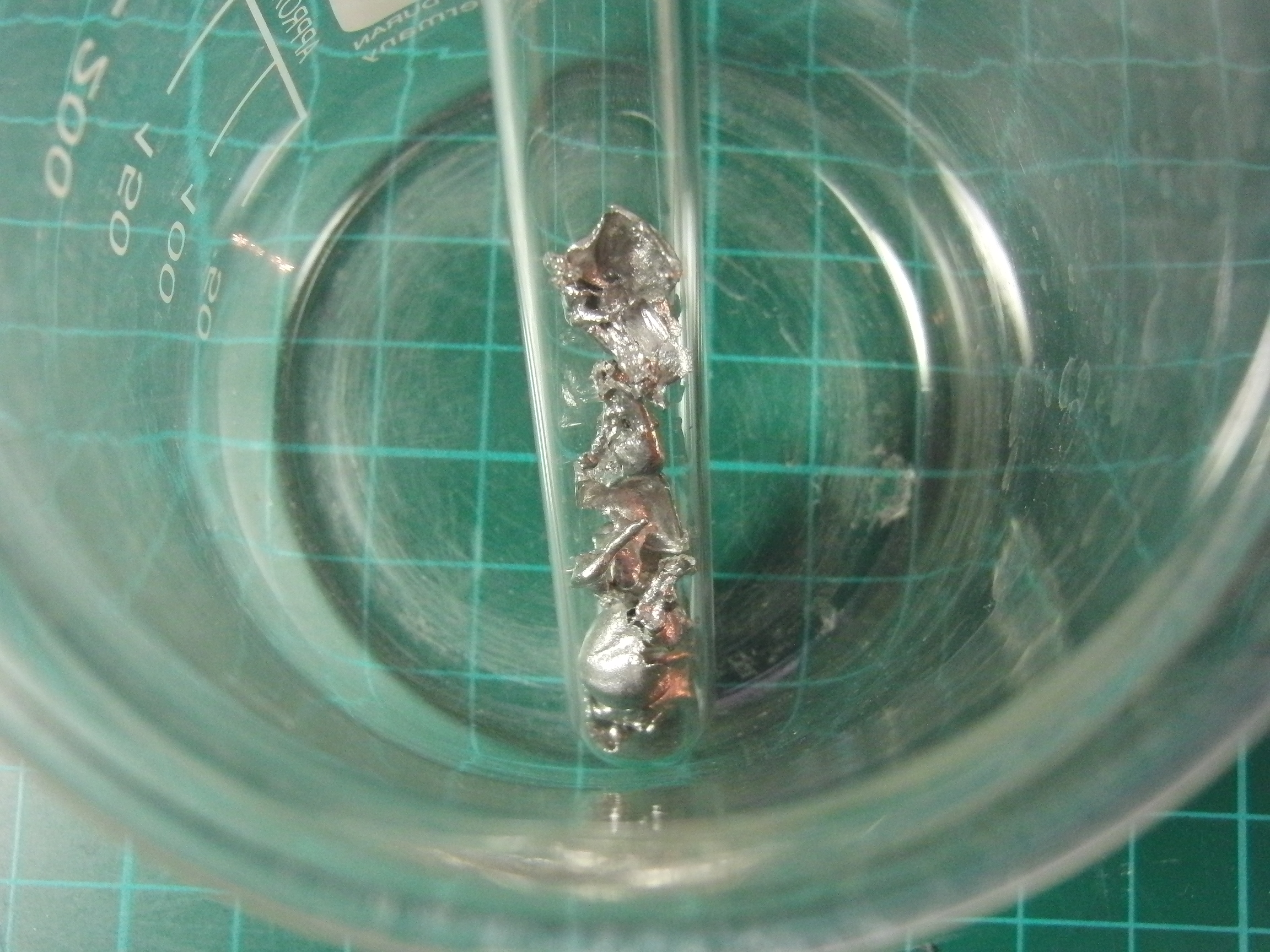 Wood's alloy